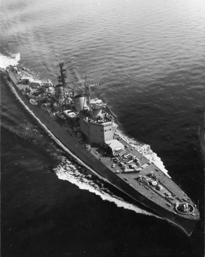 The Swedish cruiser HMS Tre Kronor.